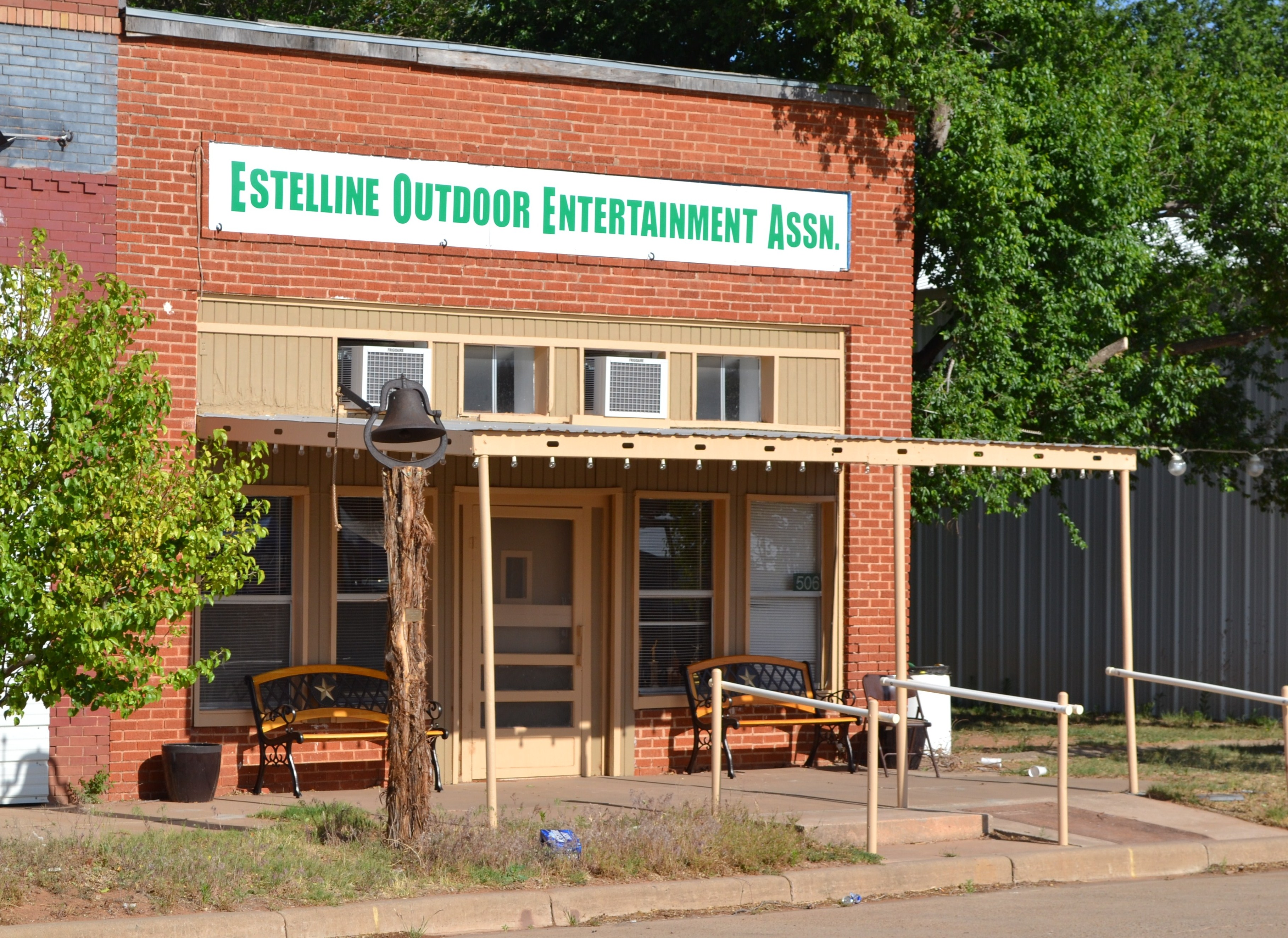 Organizing fund raising events and functions